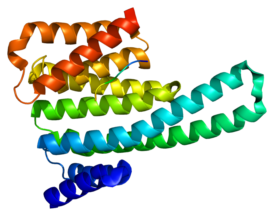 Structure of the YWHAE protein. Based on PyMOL rendering of PDB 2br9.